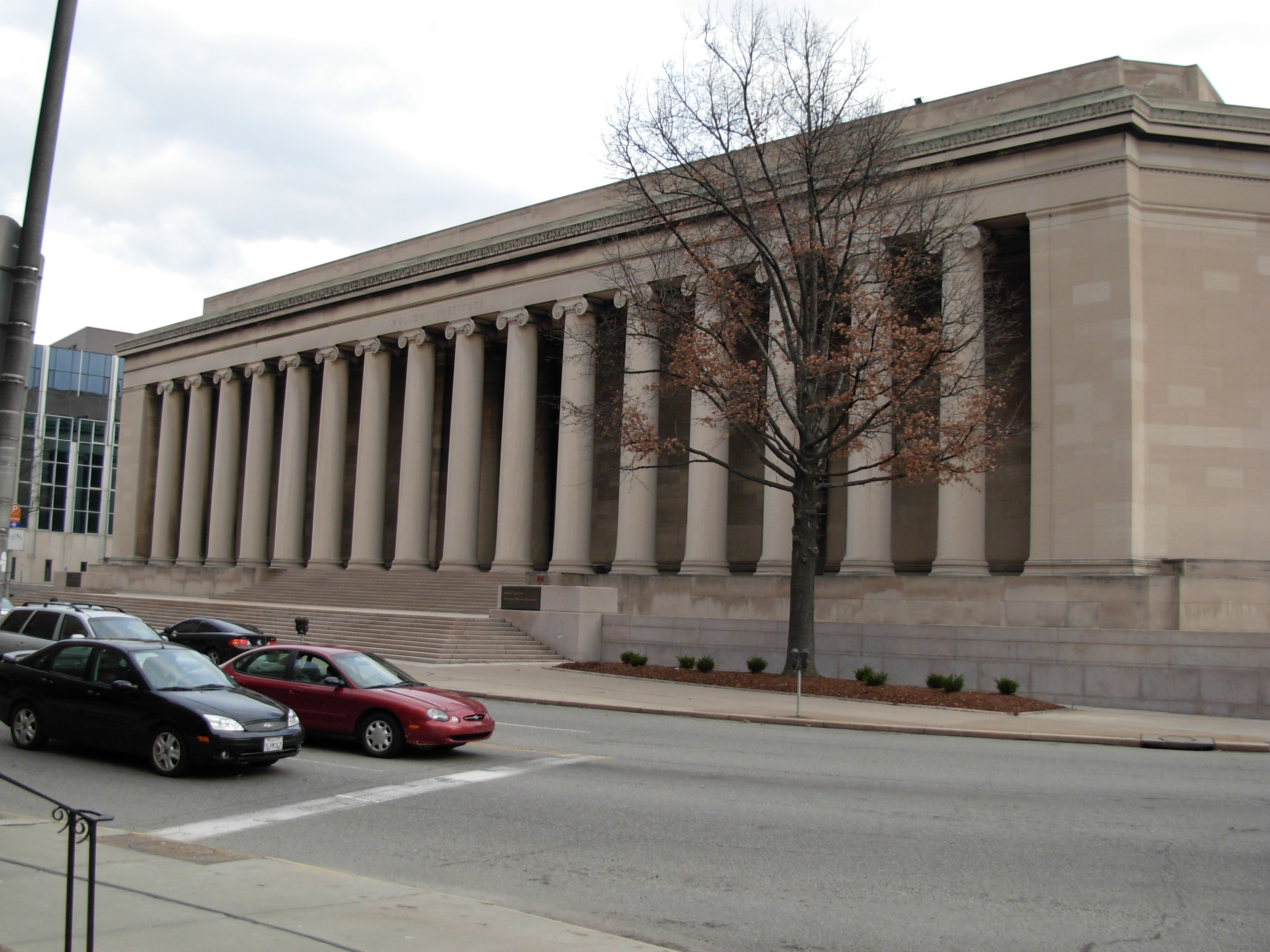 Mellon Institute, CMU. Photo by myself.